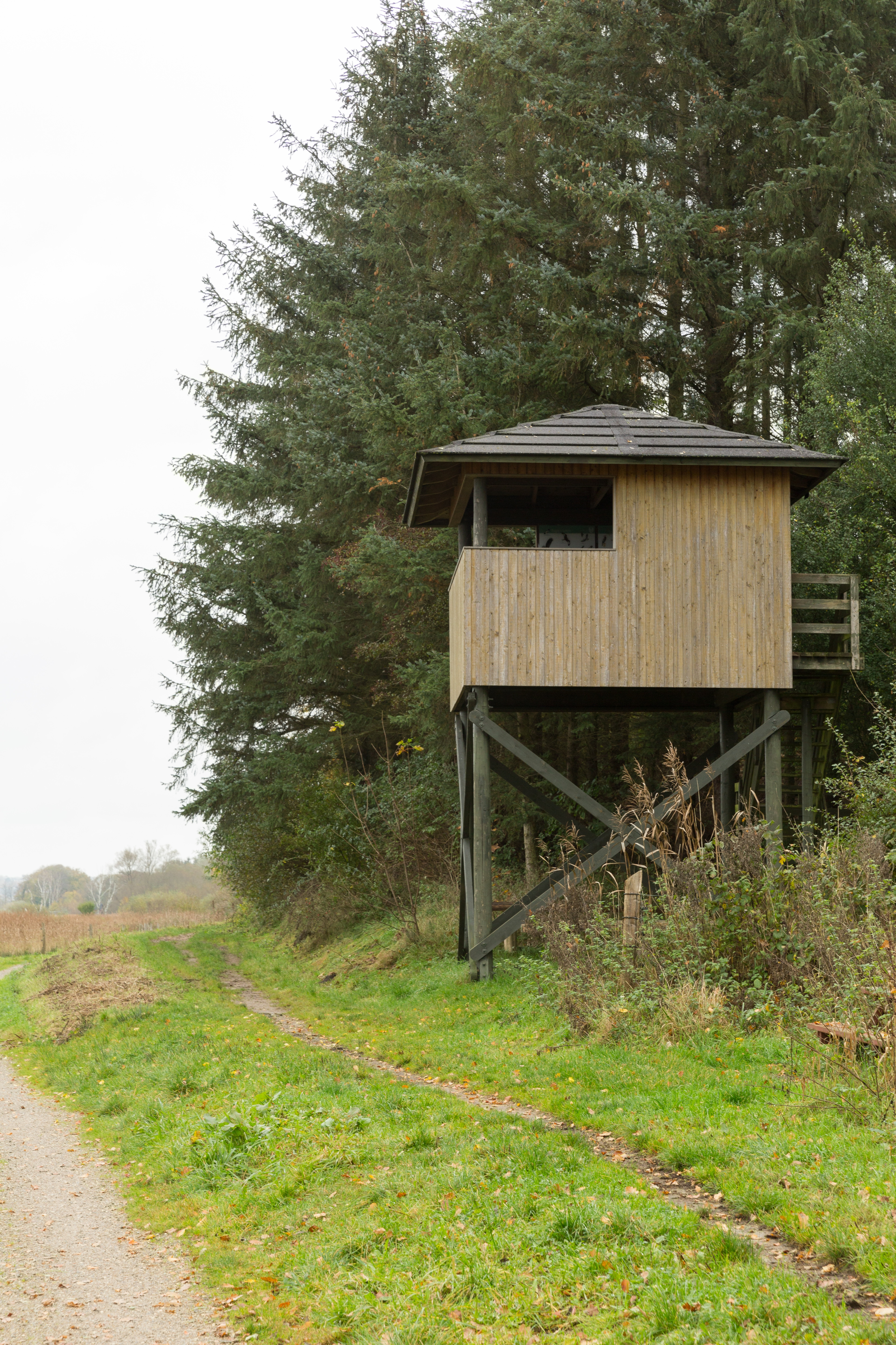 Birdwatching tower on the south side of Årslev Engsø